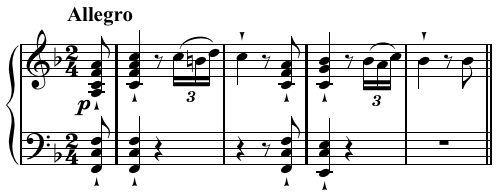 Motivic repetition in Beethoven's (1770–1827) Sonata in F major, op. 10, no. 2. This work is in the public domain in its country of origin and other countries and areas where the copyright term is the author's life plus 100 years or less. You must also include a United States public domain tag to indicate why this work is in the public domain in the United States. This file has been identified as being free of known restrictions under copyright law, including all related and neighboring rights.